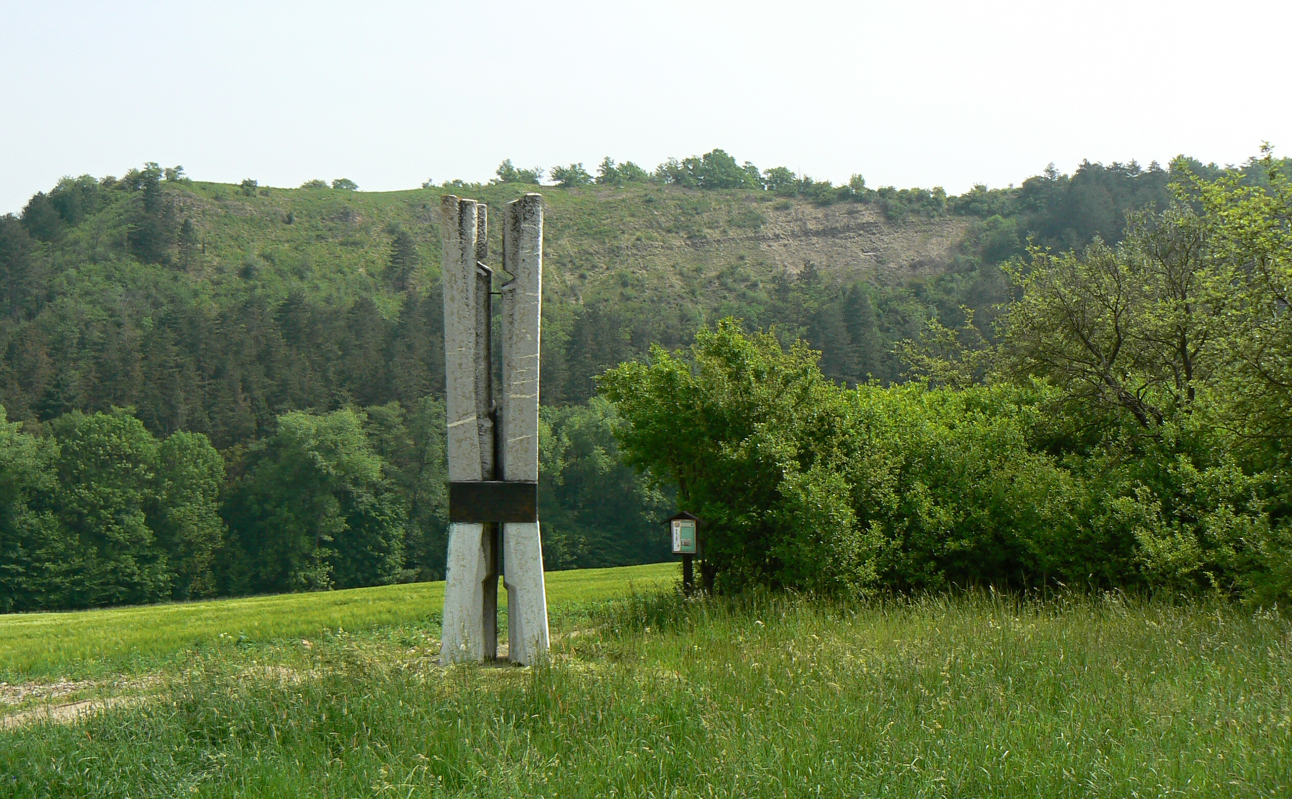 National natural monument Klonk near Suchomasty, Beroun District